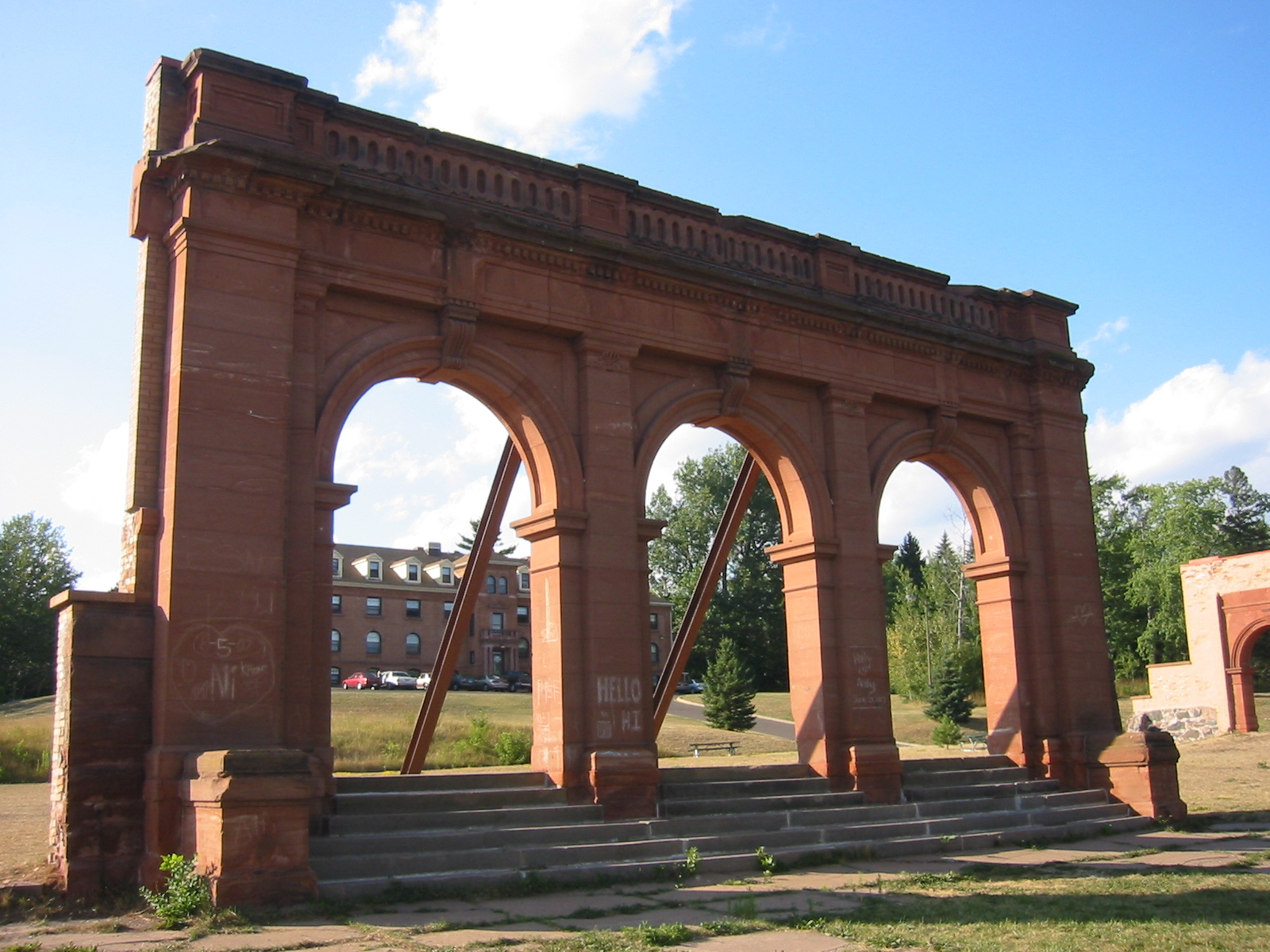 The preserved facade of Duluth State Normal School Historic District in Duluth, Minnesota, listed on the National Register of Historic Places. Three extant buildings of this campus are now part of the University of Minnesota, Duluth.